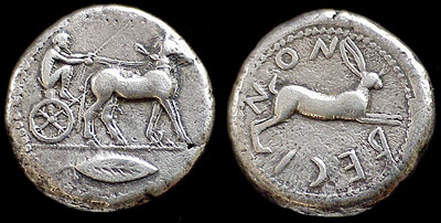 Bruttium, Rhegion. Circa 478-476 BC. AR Tetradrachm (17.40 gm). Charioteer in biga right, holding reigns and kentron; leaf in exergue / Hare bounding right. Caltabiano 101 (O51/R59 -- this coin); P. Attianese, Calabria Greca III, 1311. Lightly toned VF. Ex J. Schulman Auction 265 (28 September 1976), lot 45; ex J. Schulman Auction 264 (26 April 1976), lot 5030; ex Metropolitan Museum of Art: John Ward Collection, pt. II (Sotheby & Co., 4-5 April 1973), lot 90. With the exception of the identifying ethnic, the early coinage of Rhegion is nearly identical to that of Messana in Sicily, located directly across the narrow straits from Rhegion. Both cities were ruled by Anaxilas, a tyrant who gained control of Rhegion in 494 and subsequently in 488 seized control of Zancle, which he re-named Messana after transferring a large contingent of Messenian refugees from the Peloponnesos there. Anaxilas won the mule biga event in the Olympic Games in 484 or 480 BC, an event celebrated by the charioteer shown on the obverse of this coin and similar issues from Messana. The significance of the hare on the reverse is ambiguous; it may have some connection with the religious beliefs of the Peloponnesians who were settled in the city by Anaxilas. Tyrants from Rhegion continued to rule both cities until 461 when they were expelled and the cities gained their freedom.